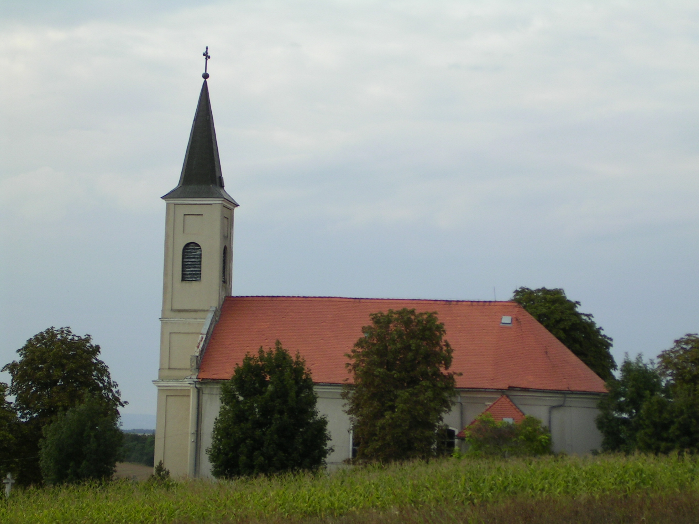 Saint Anne Roman catholic church in Kiskassa, Hungary